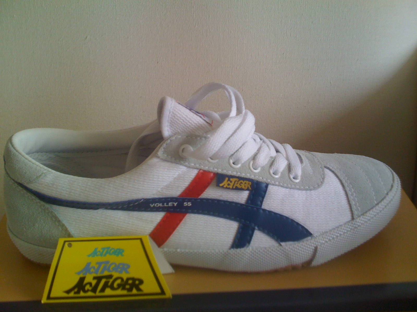 Classic 70's volleyball trainers. AcTiger Volley 55. not Onitsuka Tiger ?